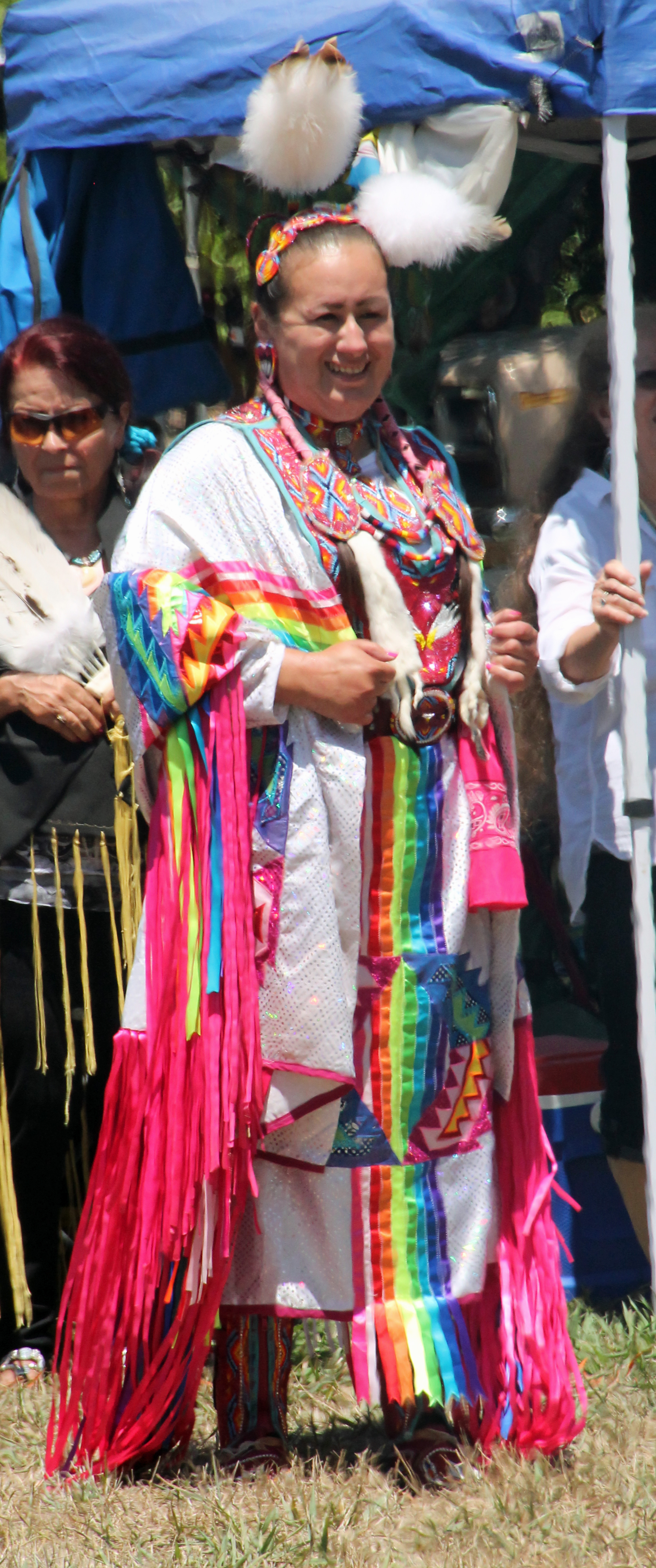 Suscol Intertribal Council 22nd Pow-wow, Yountville, California